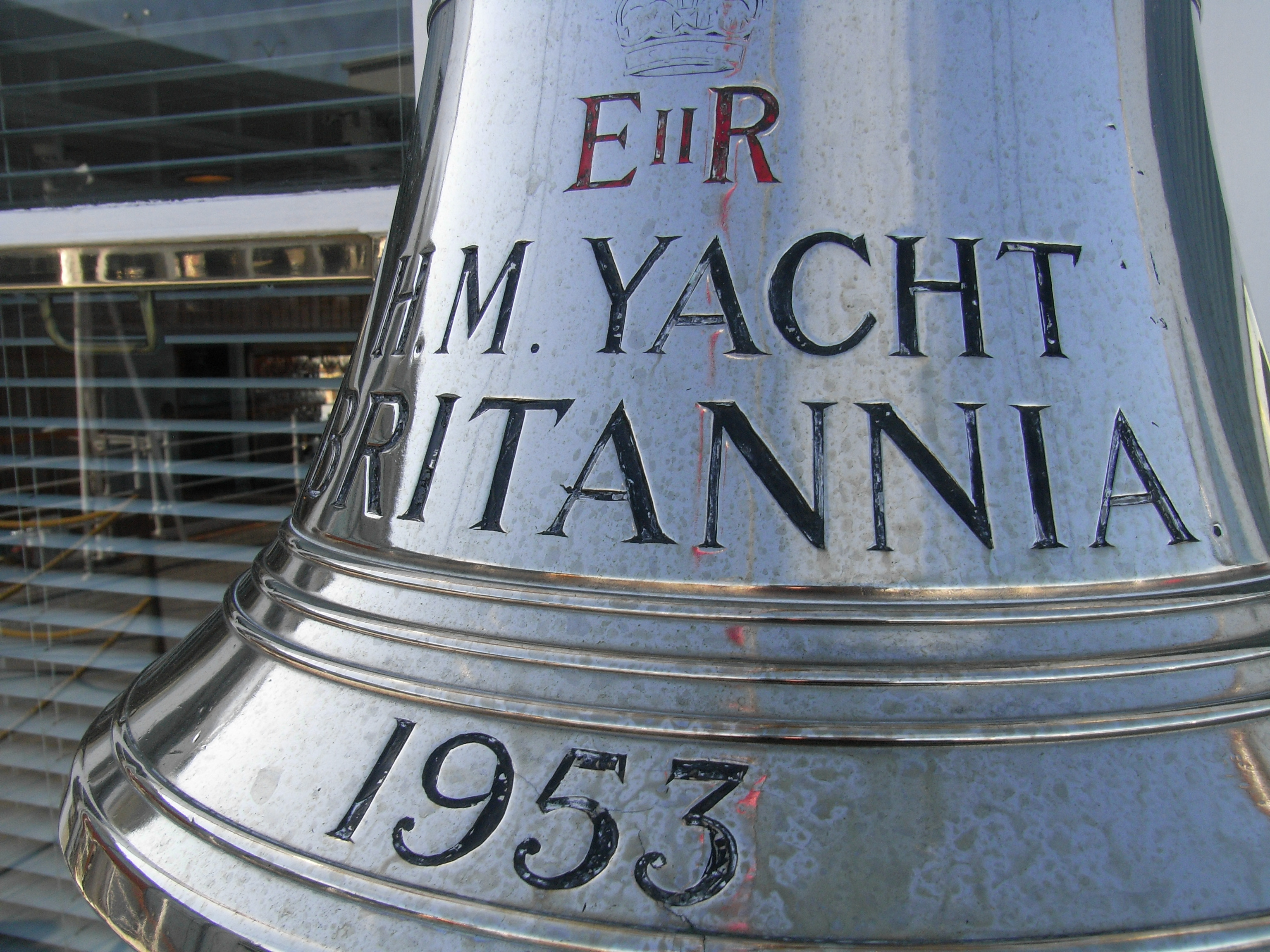 The bell on the HMY Britannia